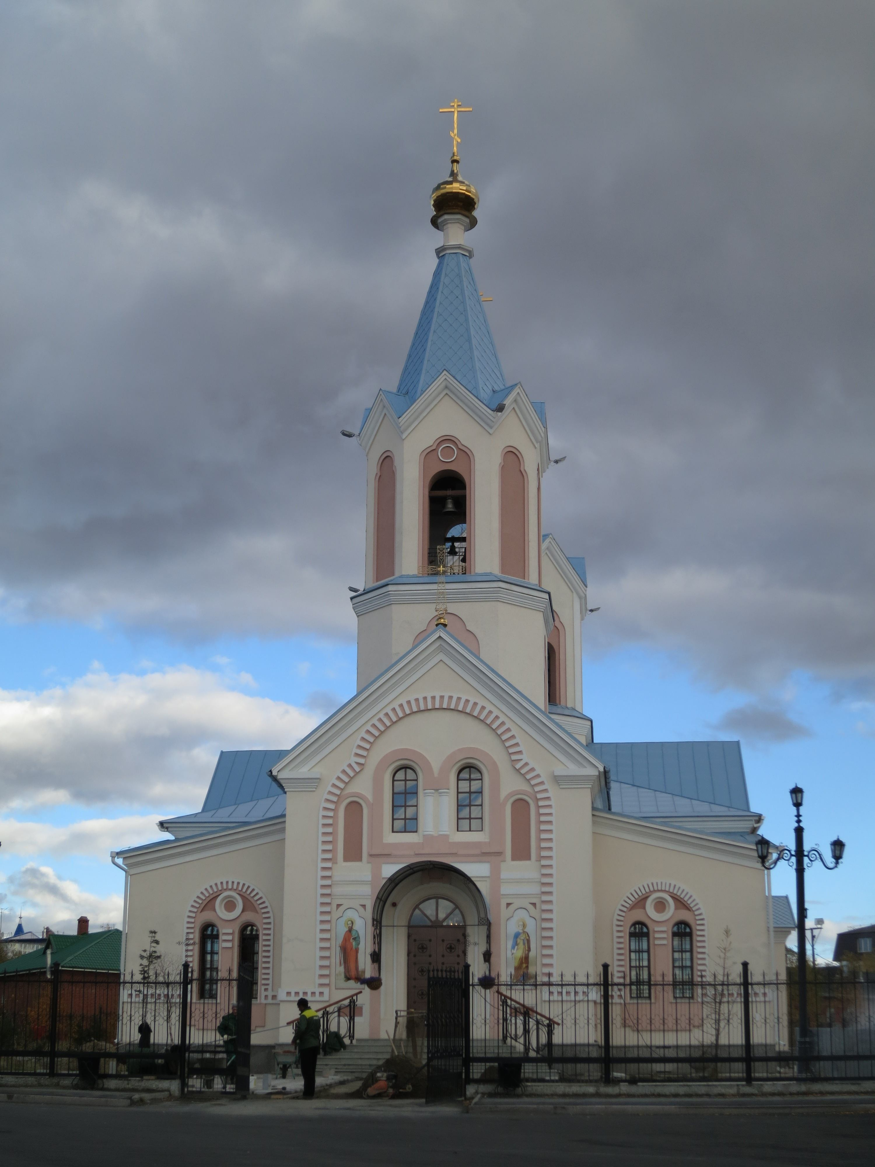 Town Salekhard Russia